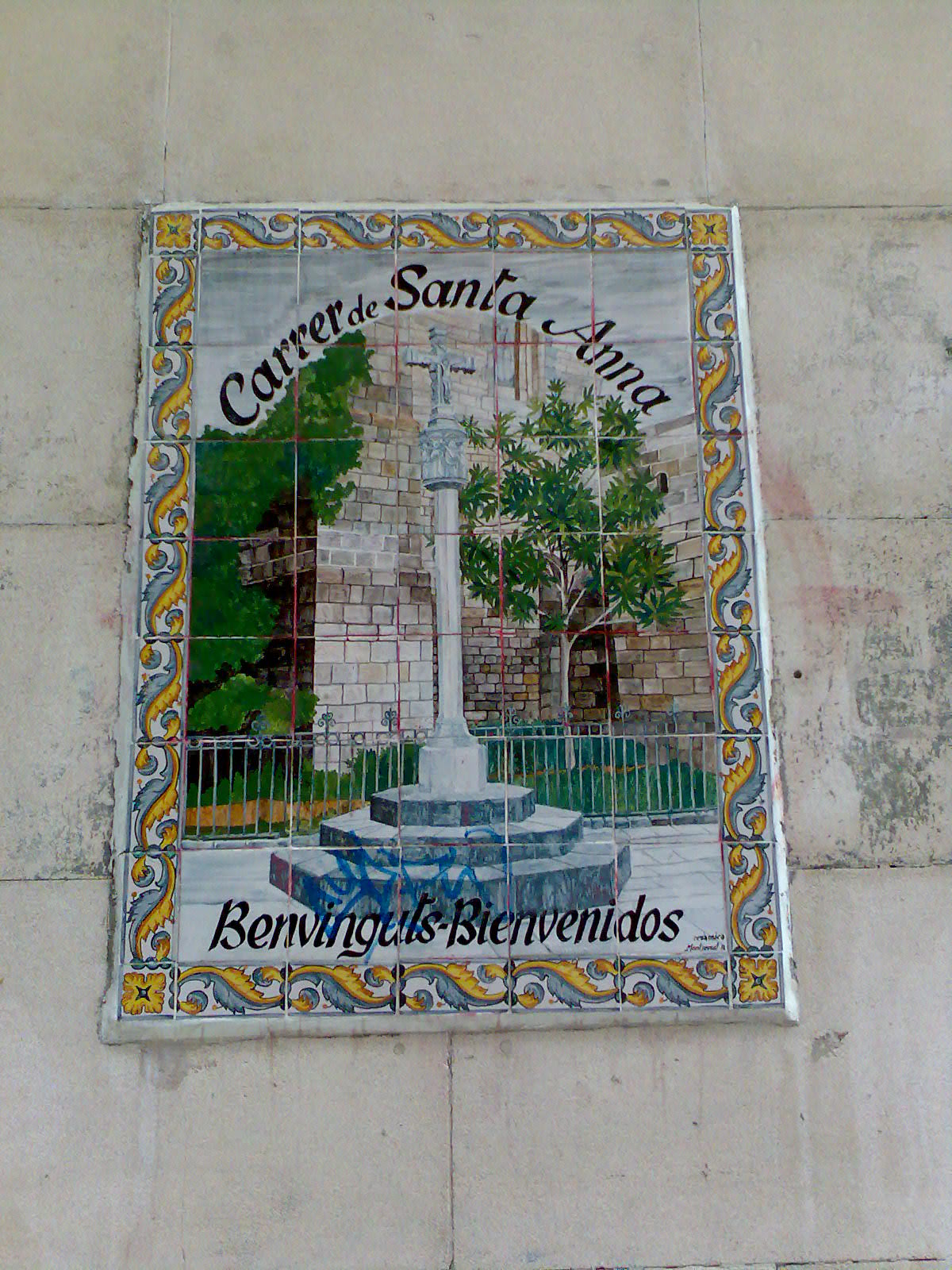 Sign of Carrer de Santa Anna in Barcelona, Spain